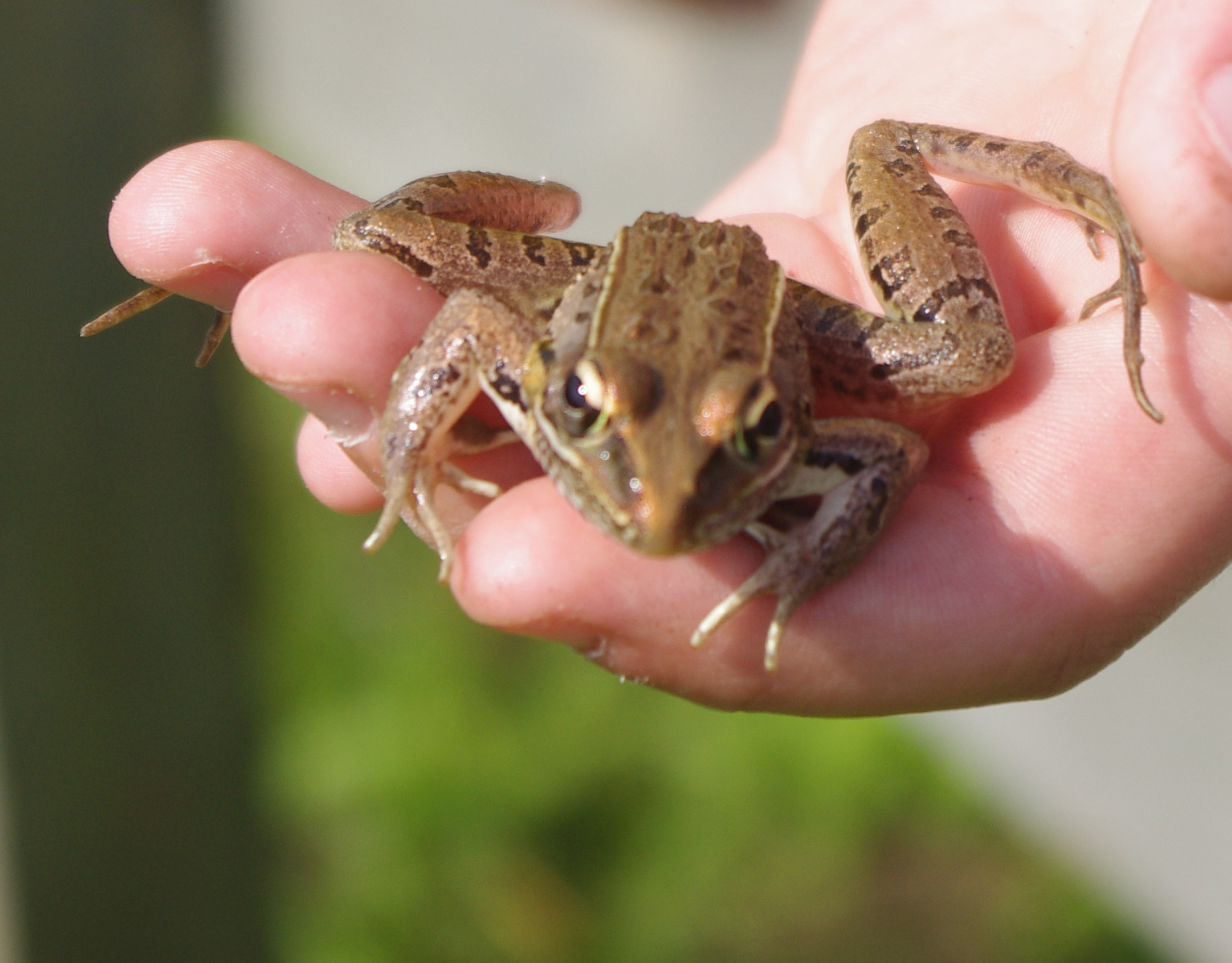 Our final Kid's Fishing Tourney with bike racers, dog walkers, frogs, and snakes Used on social media leap day. SA